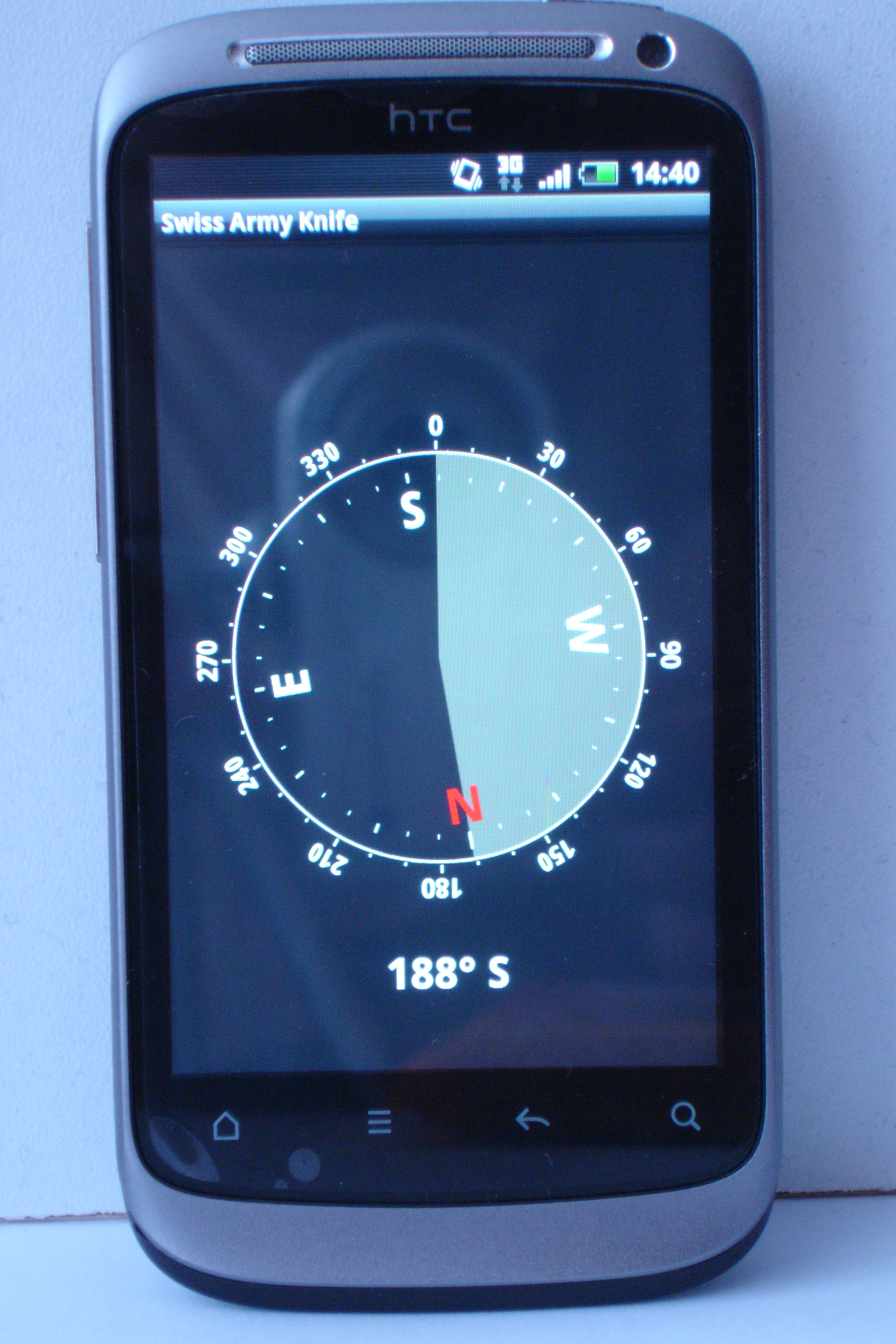 A HTC Desire S showing a compass app